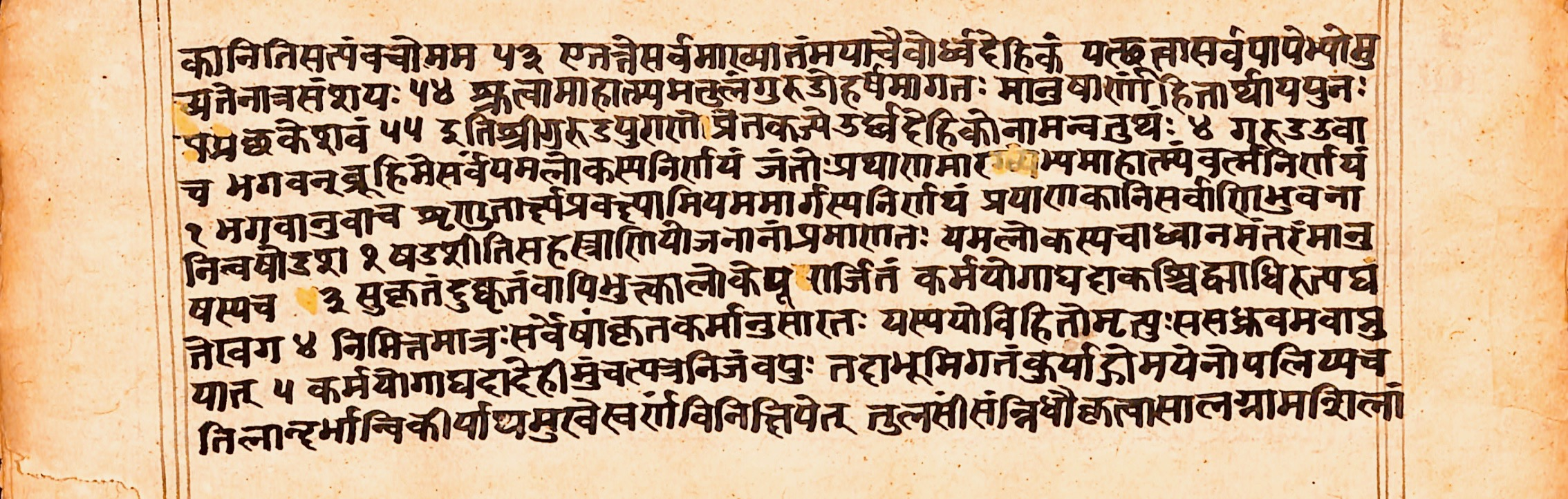 This is a page from the Garuda Purana manuscript. Language: Sanskrit Script: Devenagari This manuscript was acquired in the 19th-century, and was produced in or before the acquisition. The photo above is of a 2D artwork from the text that was itself authored more than 500 years ago. Therefore Wikimedia Commons PD-Art licensing guidelines apply. Any rights I have as a photographer is herewith donated to wikimedia commons under CC 4.0 license.